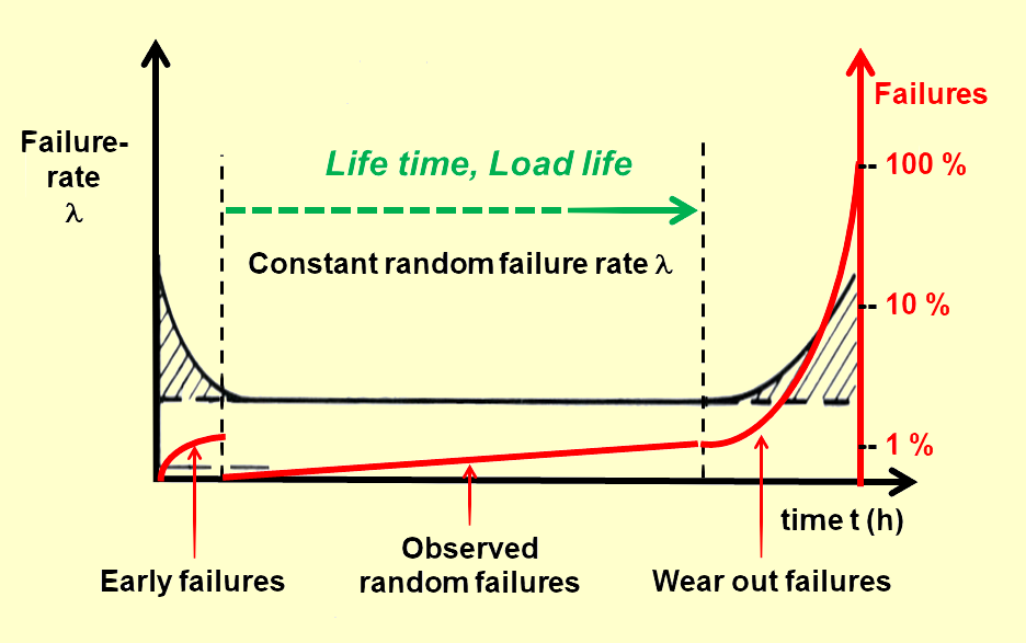 Bathtub curve with explanation of the life time (load life) of electrolytic capacitors